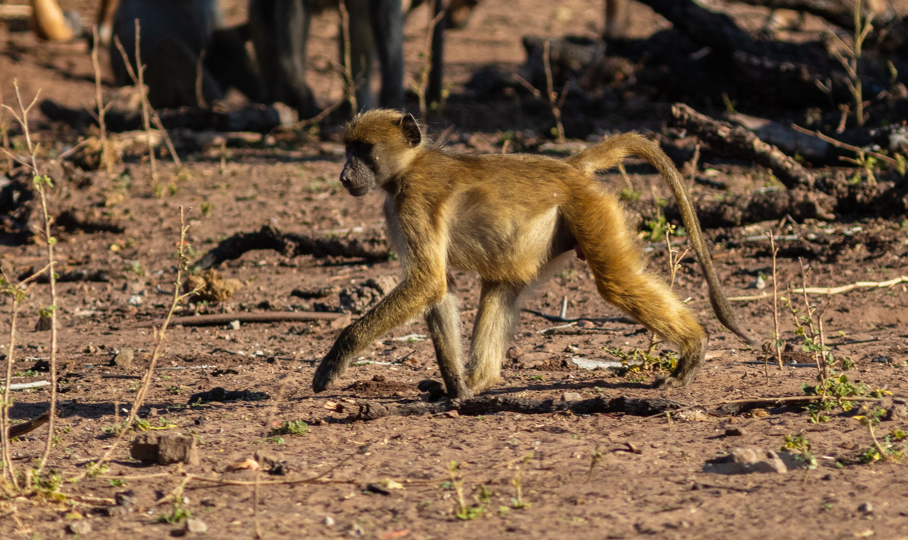 Chacma baboon (Papio ursinus), Chobe National Park, Botswana